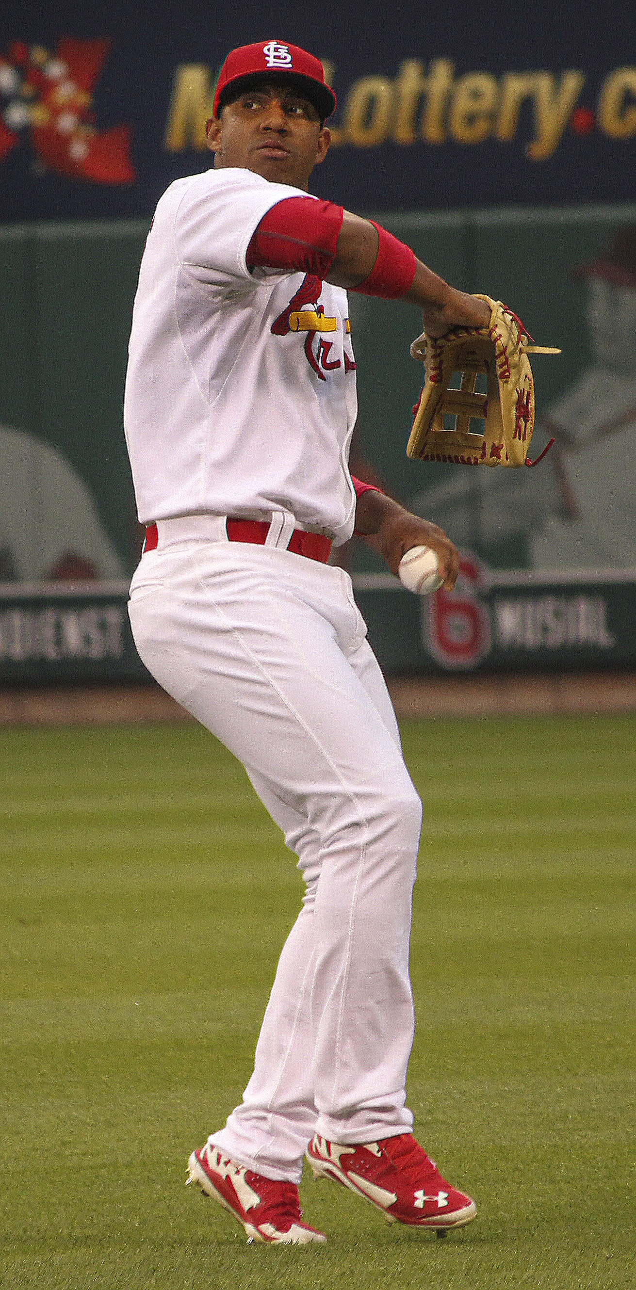 Oscar Taveras, St.Louis Cardinals rightfielder.